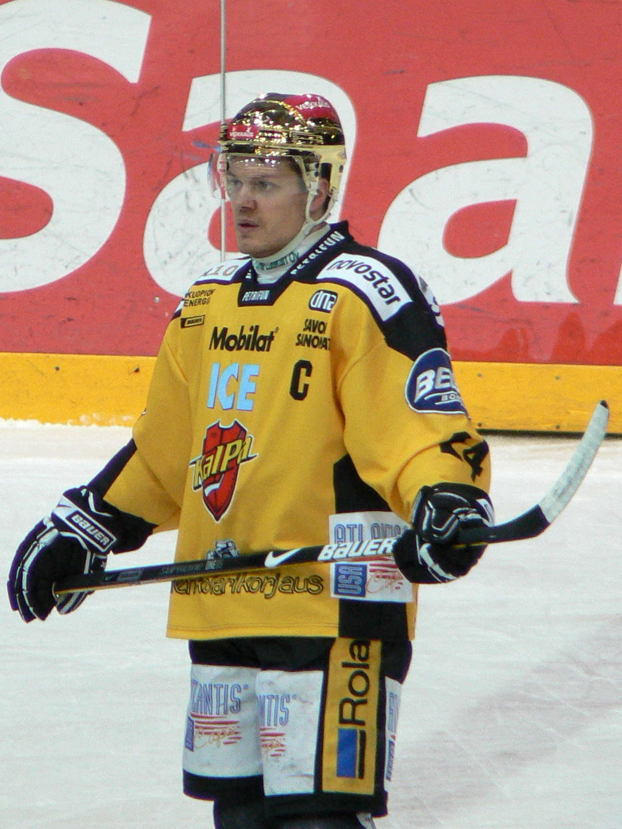 Finnish ice hockey forward Sami Kapanen of KalPa Kuopio in an SM-liiga game in February, 2009. Kapanen is wearing the golden helmet as the leading scorer of his team.